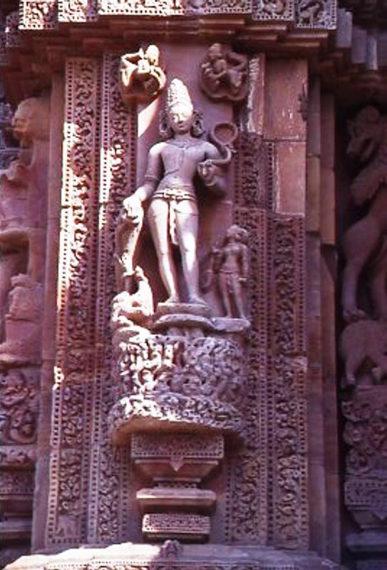 Varuna, Rajarani Temple, Bhuvanesvar, Orissa, India